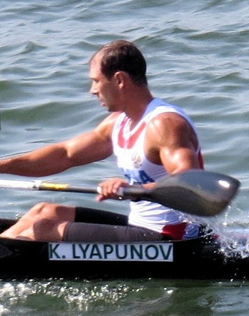 Canoeing at the 2016 Summer Olympics – Men's K-4 1000 metres